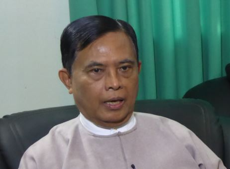 VOA Interview with U Aung Kyi on 2017